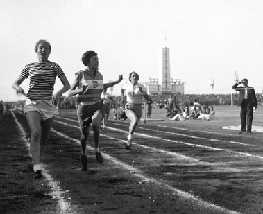 Racers during the 2nd Maccabiah.